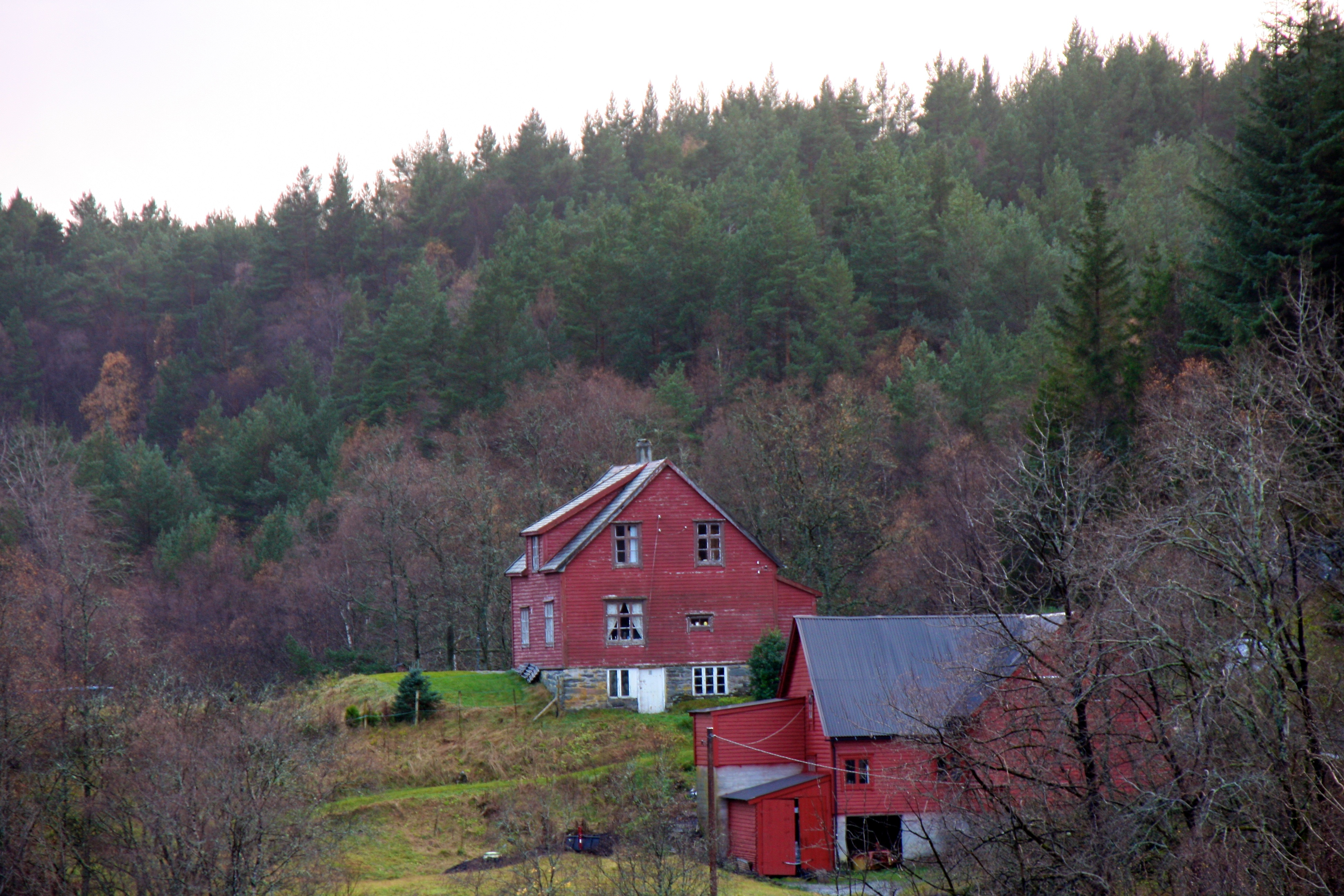 Vatne (Gulen) in Gulen municipality, Norway.